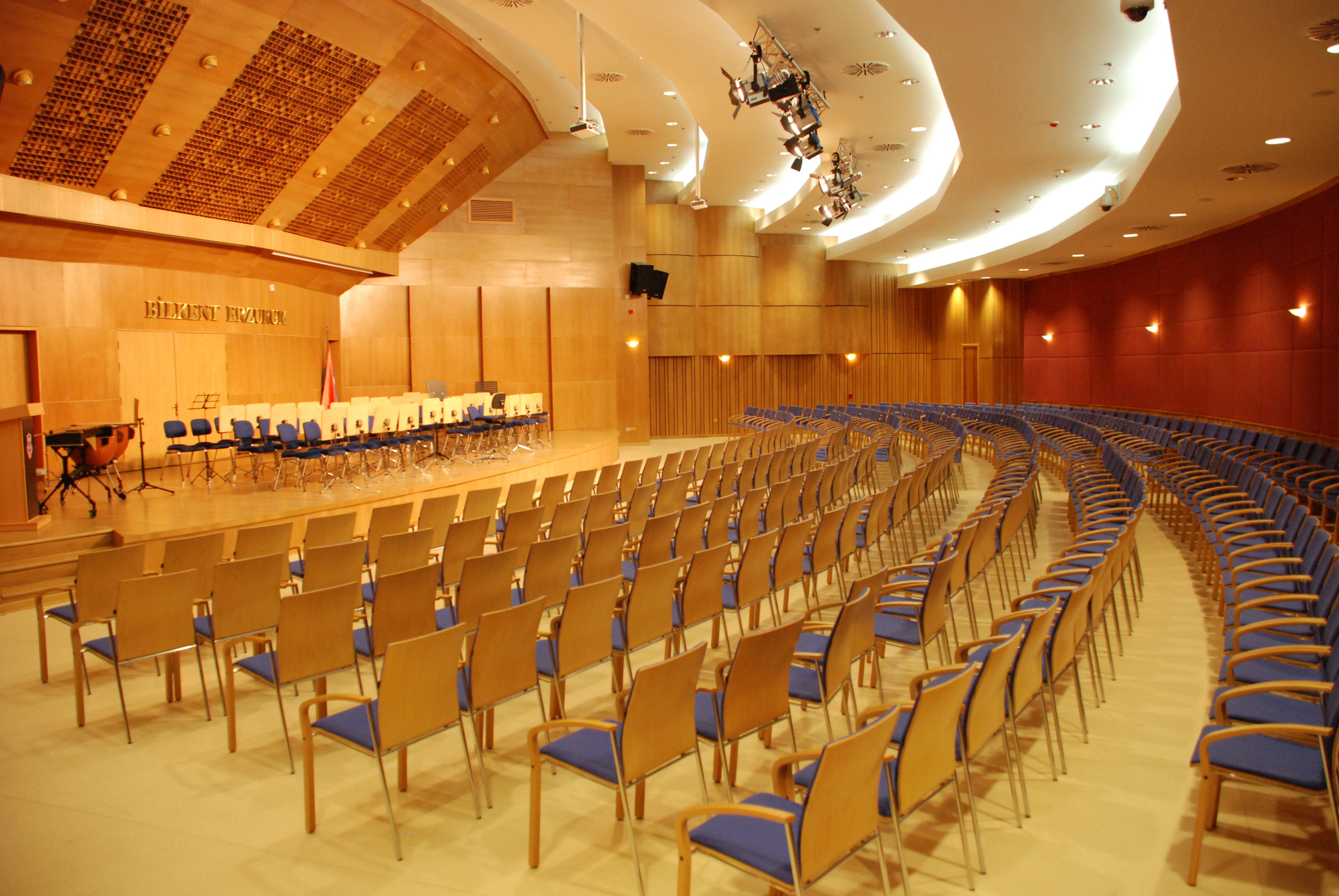 Bilkent Erzurum Multi Purpose Hall Left